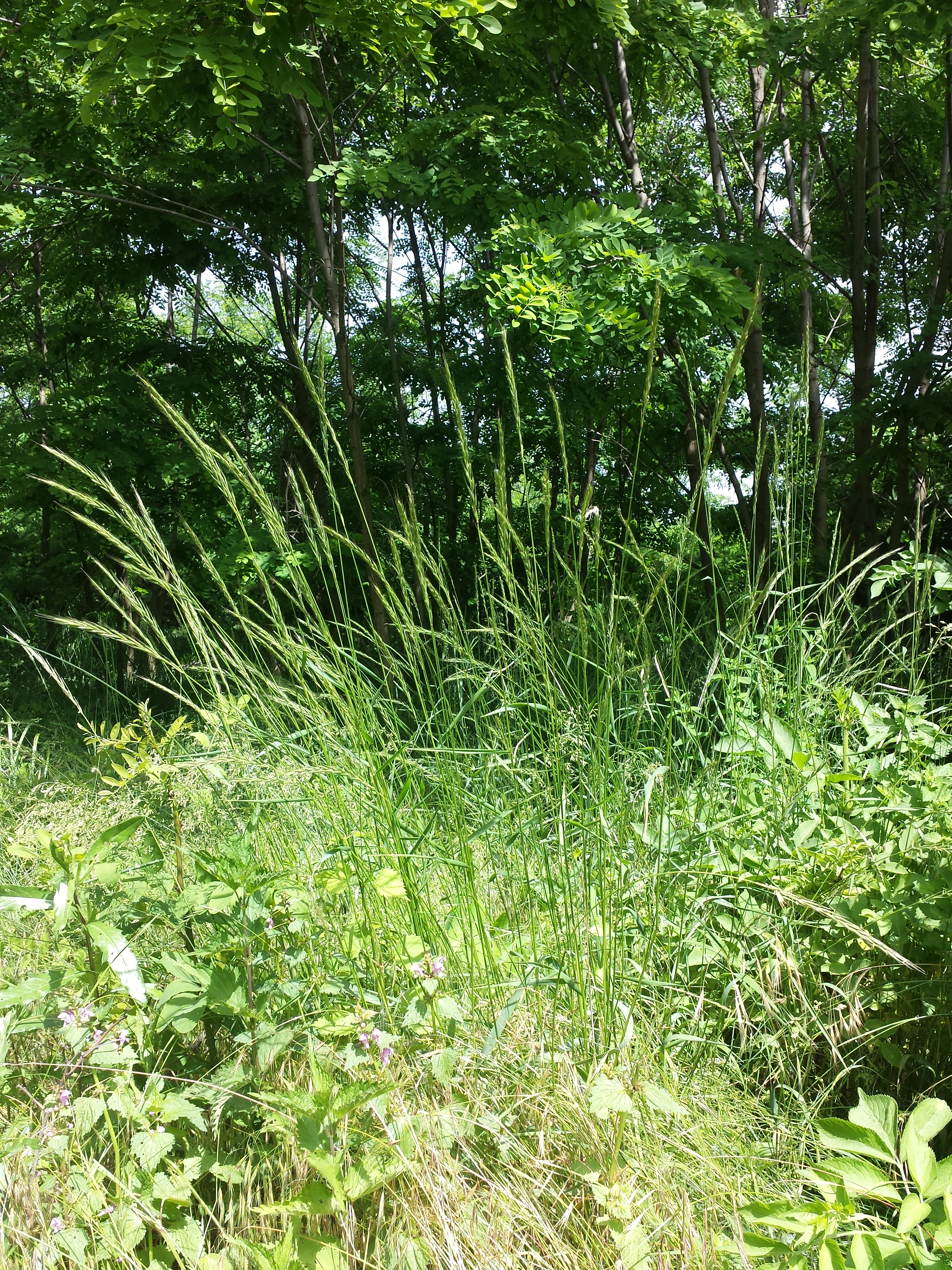 Habitus Taxonym: Elymus caninus ss Fischer et al. EfÖLS 2008 ISBN 978-3-85474-187-9 Location: Ladenbrunner Wald, district Mistelbach, Lower Austria - ca. 300 m a.s.l. Habitat: glade